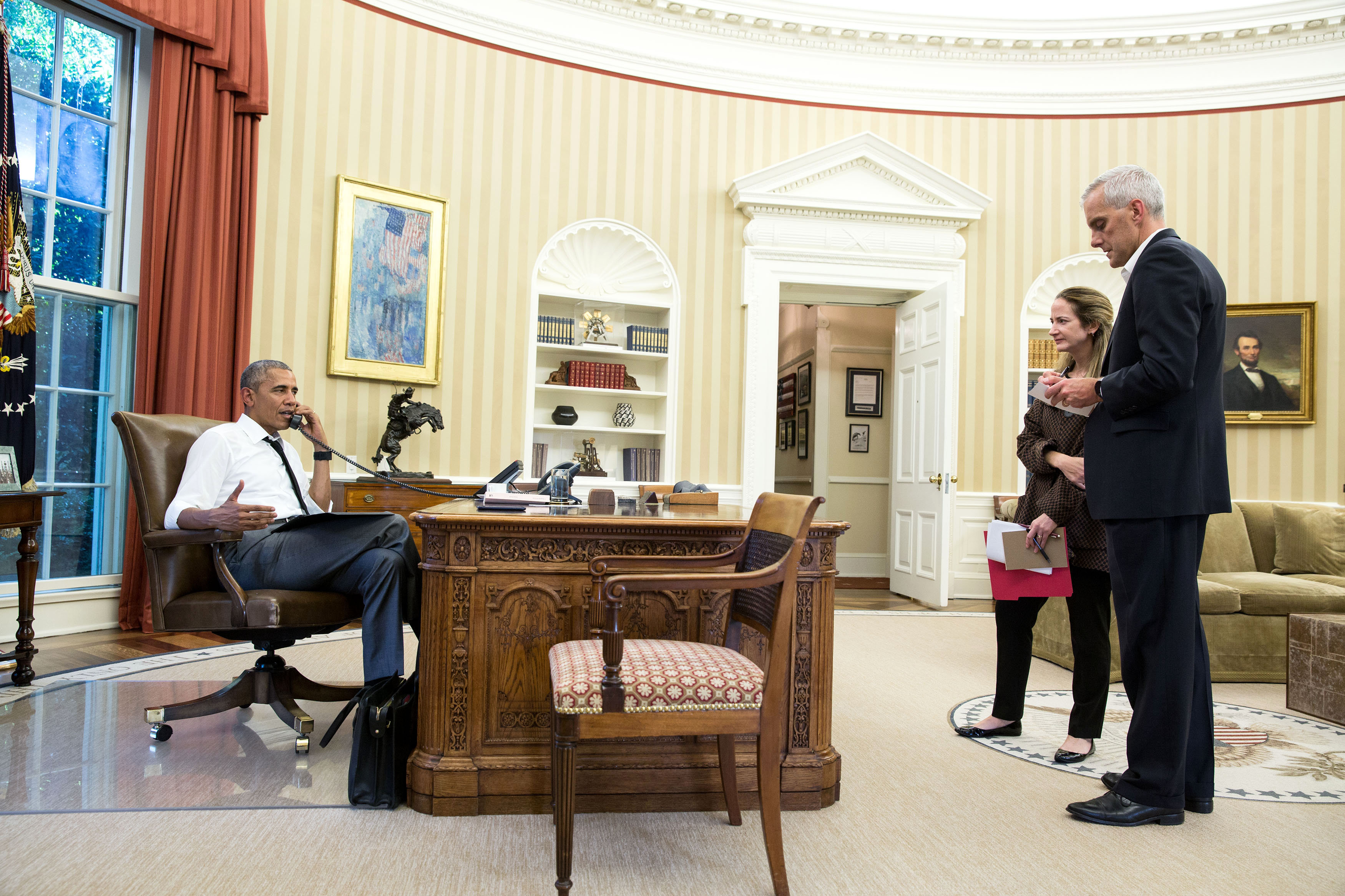 President Barack Obama talks on the phone in the Oval Office with Secretary of State John Kerry regarding the situation in Turkey, July 15, 2016. Chief of Staff Denis McDonough and Avril Haines, Deputy National Security Advisor, listen.